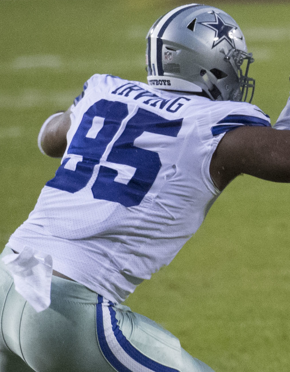 Cowboys at Redskins 10/29/17